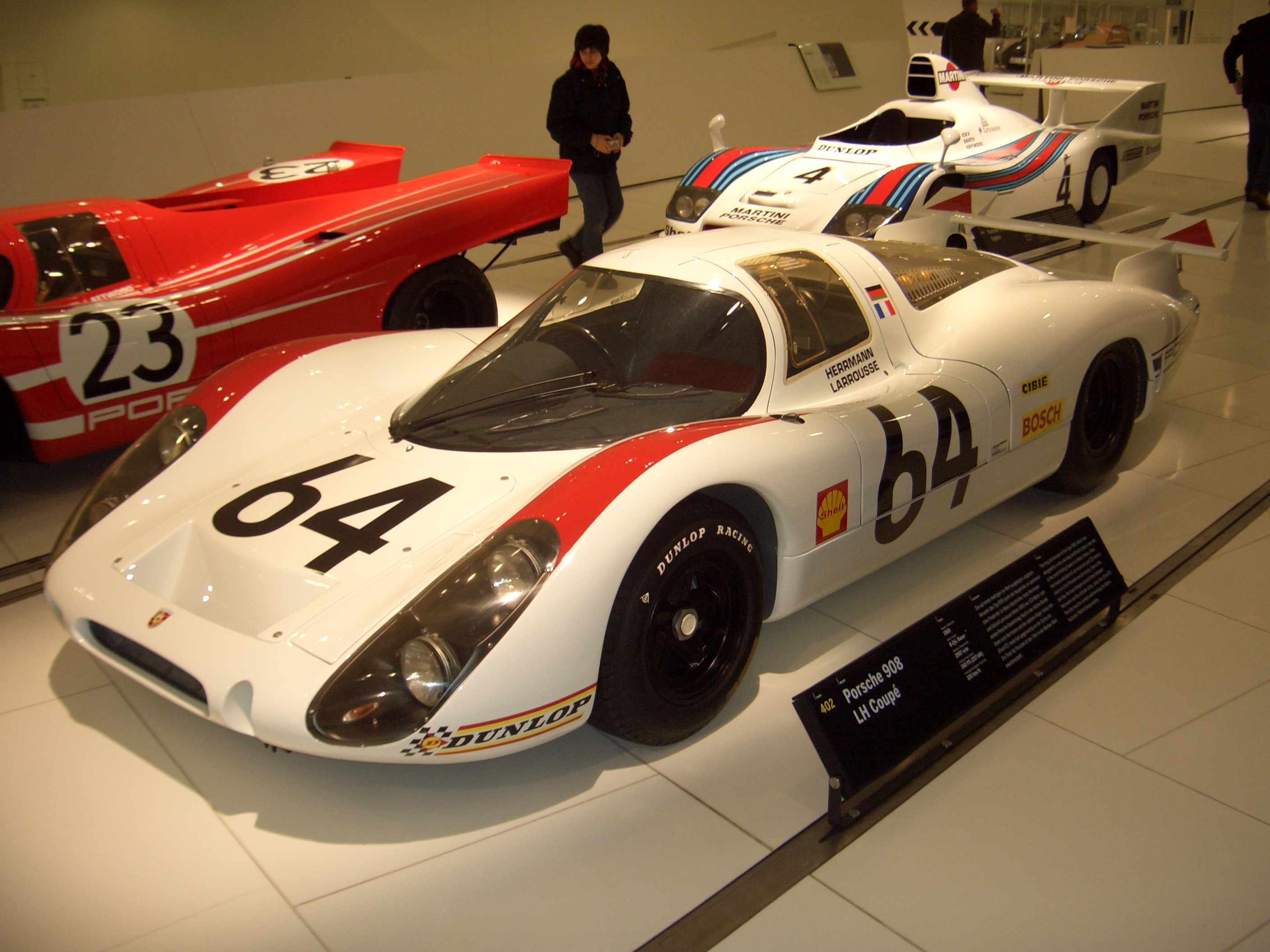 see filename for despcription - seen at Porsche Museum Native namePorsche-MuseumLocationStuttgartCoordinates48° 50′ 07″ N, 9° 09′ 06″ E Established1976 (old museum) 2009 (new museum)Web page control : Q328623 VIAF: 138511768 GND: 2087859-X SUDOC: 155641123 NKC: ko2015876799 institution QS:P195,Q328623